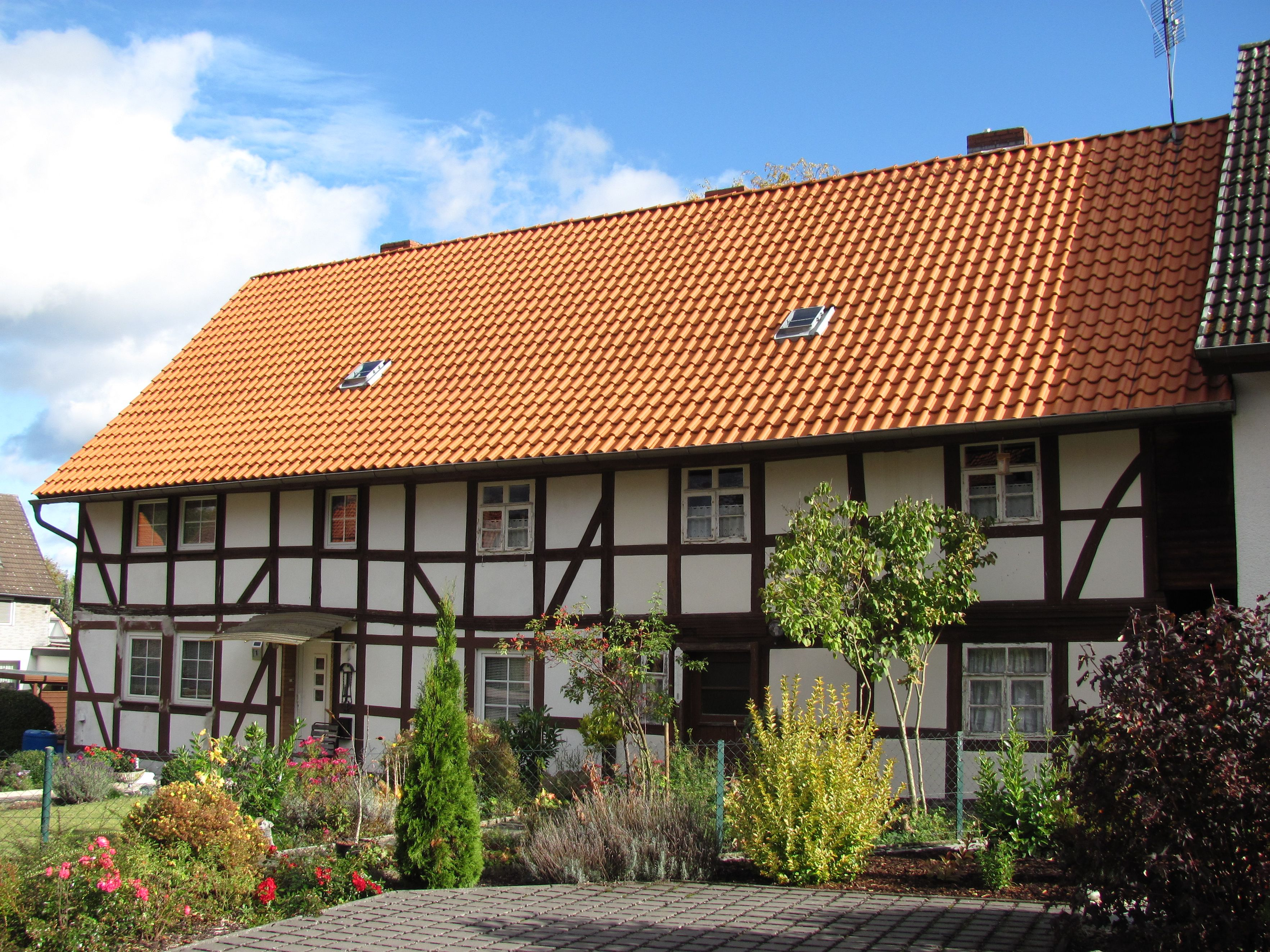 Market Place, Wrisbergholzen near Hildesheim, Lower Saxony, Germany